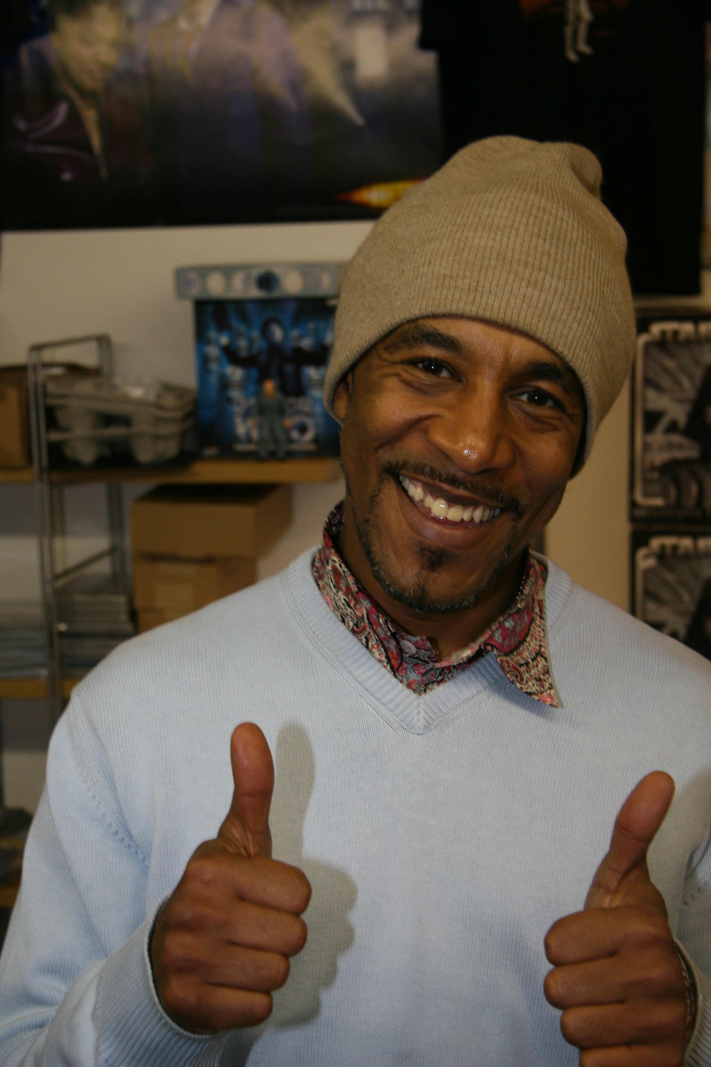 Photograph of Danny John-Jules at Live 2008.